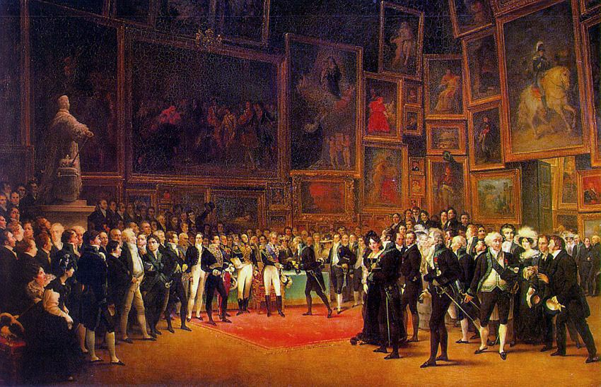 Charles X Distributing Awards to Artists Exhibiting at the Salon of 1824 at the Louvre January 15th 1825, 1827, Musée du Louvre, Paris.